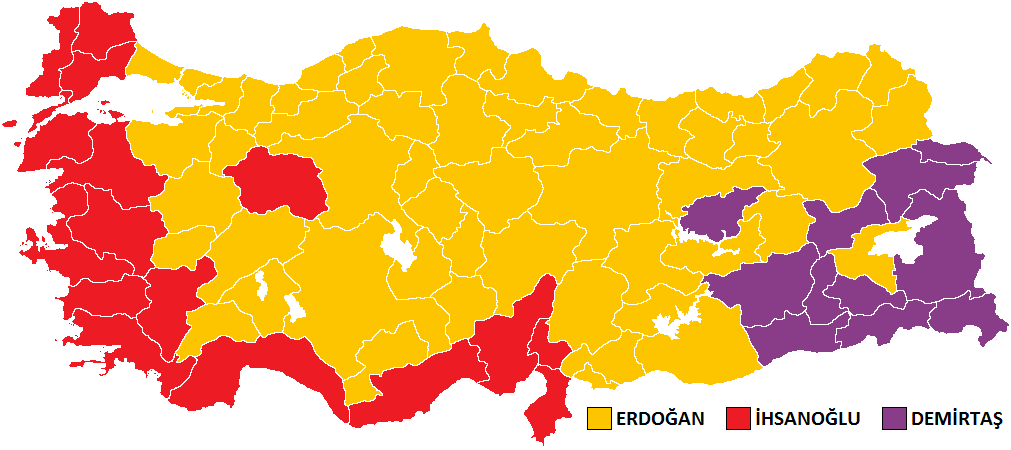 According to unofficial results of the 2014 Turkish presidential elections, the candidates of the distribution of votes in Turkey.